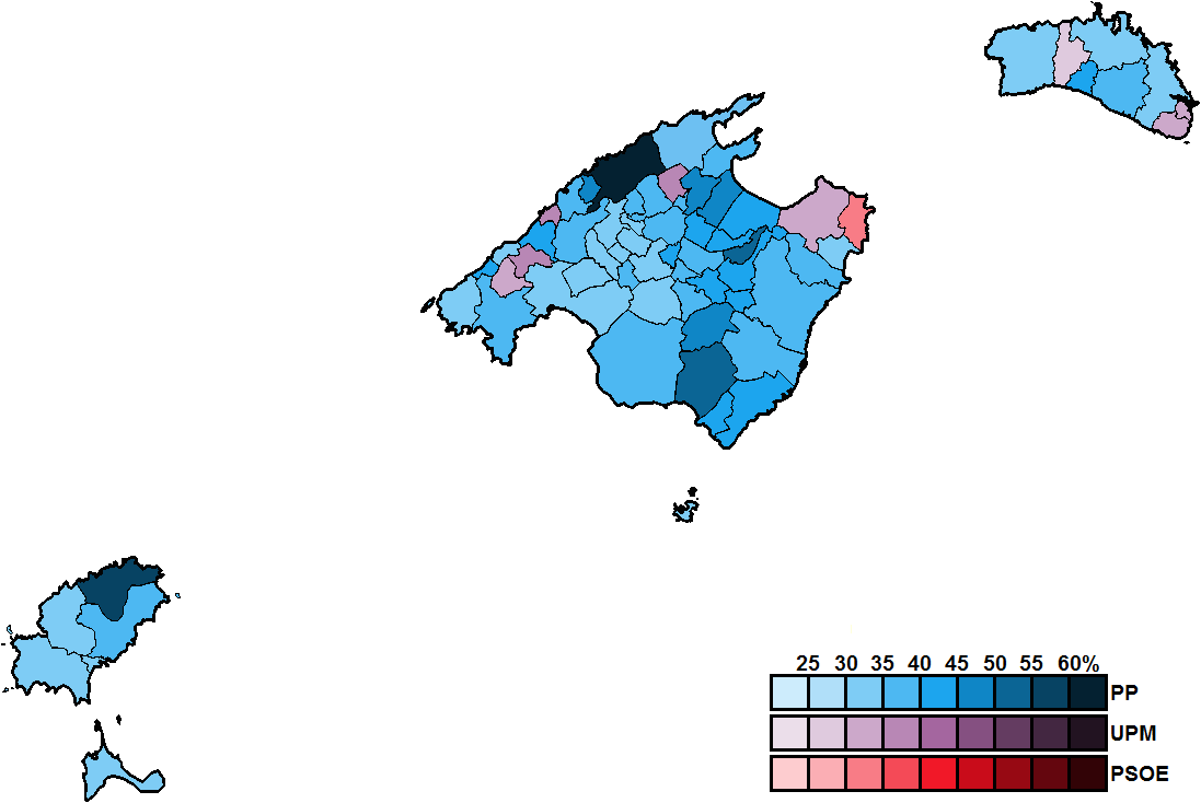 Balearic Islands Spanish Congress Electoral District Municipal Vote Share General Electons 2016